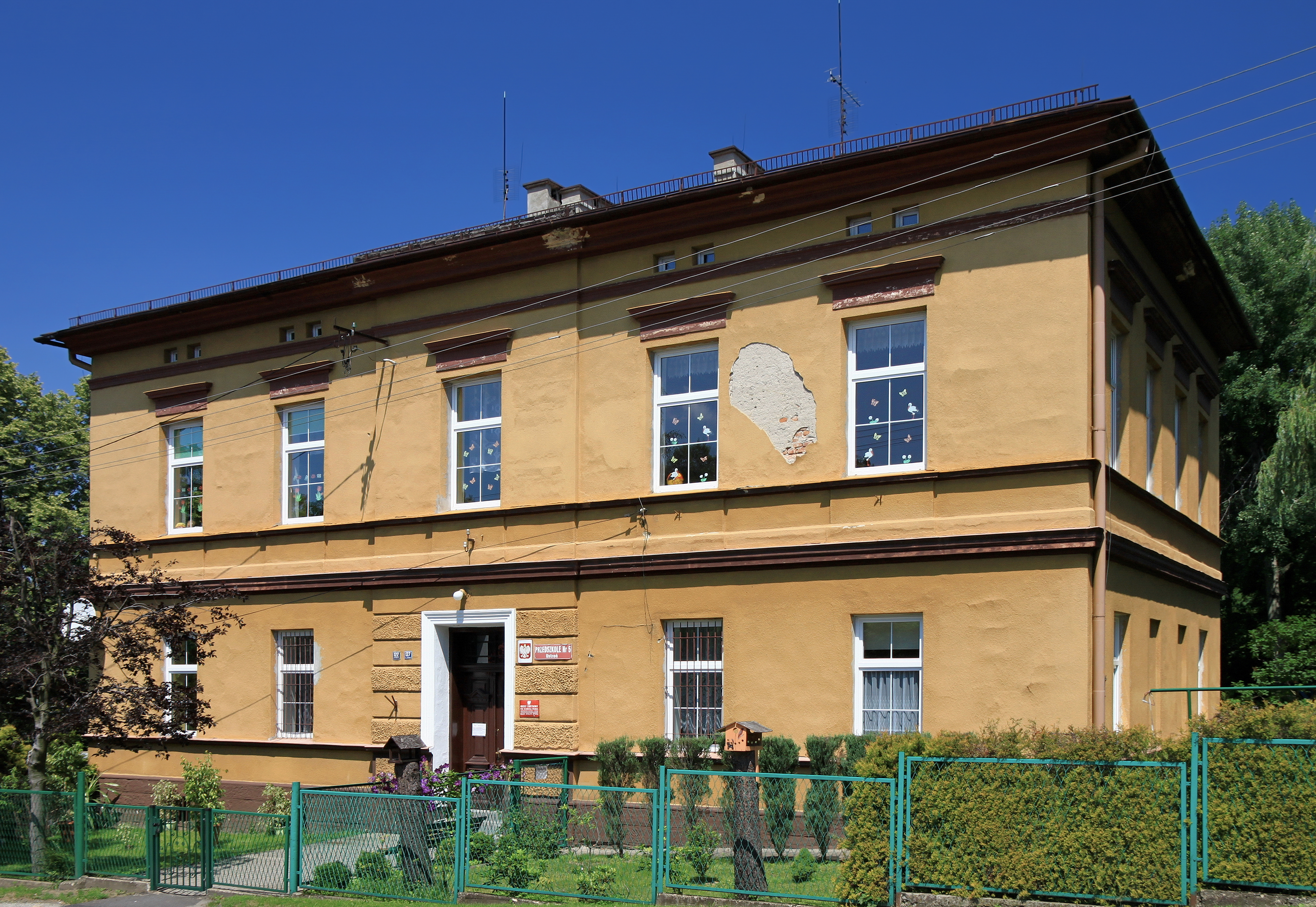 Ustroń, former rectory, now kindergarten, 18th century